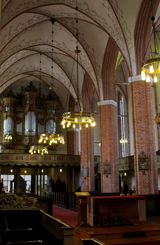 The mountain pasture of nave of StMary's church in Gryfice (Poland)